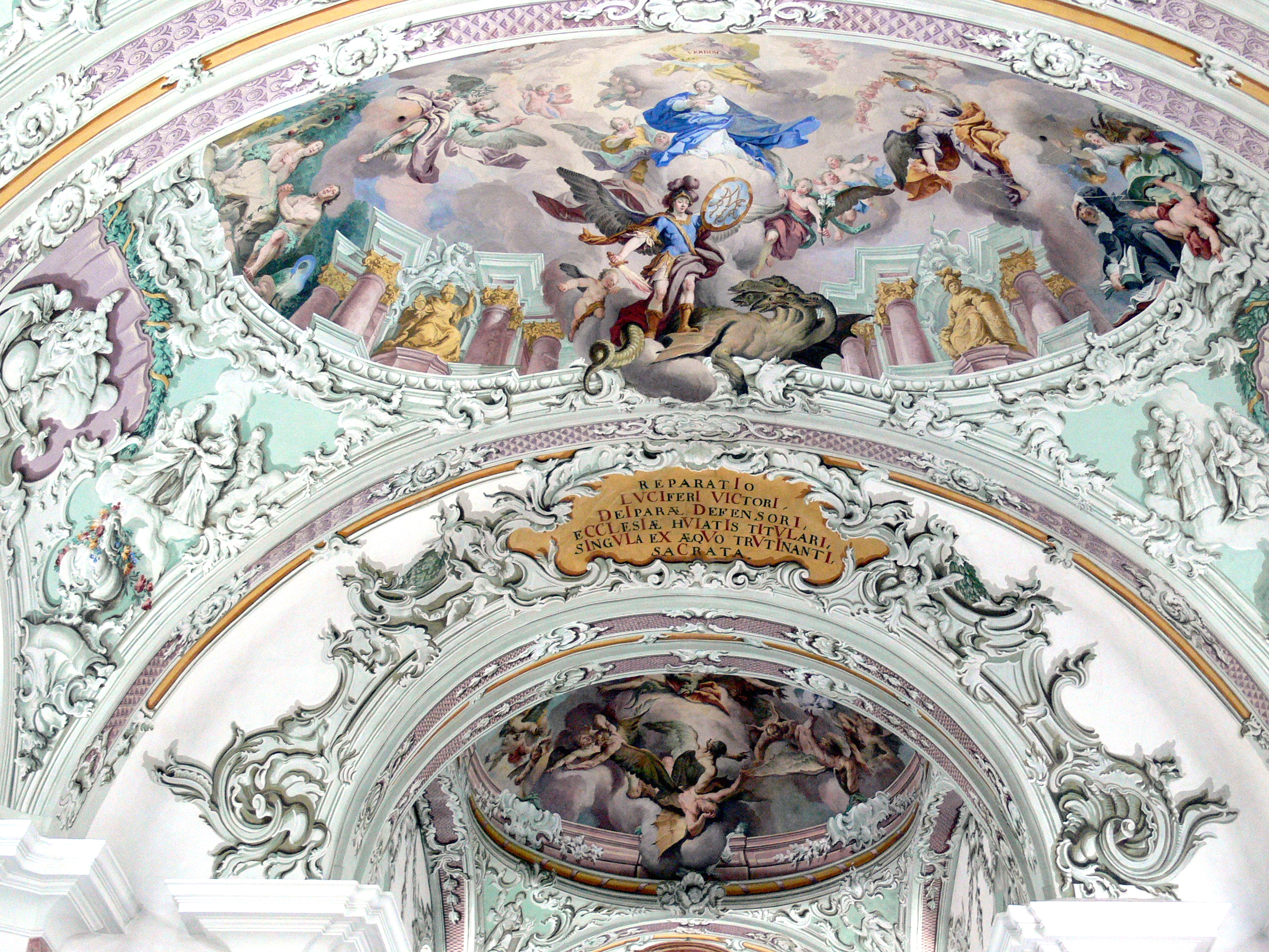 Innichen ( South Tyrol ). Saint.Michael parish church: Frescos ( 1760 ) of Saint Michael by Christoph Anton Mayr.